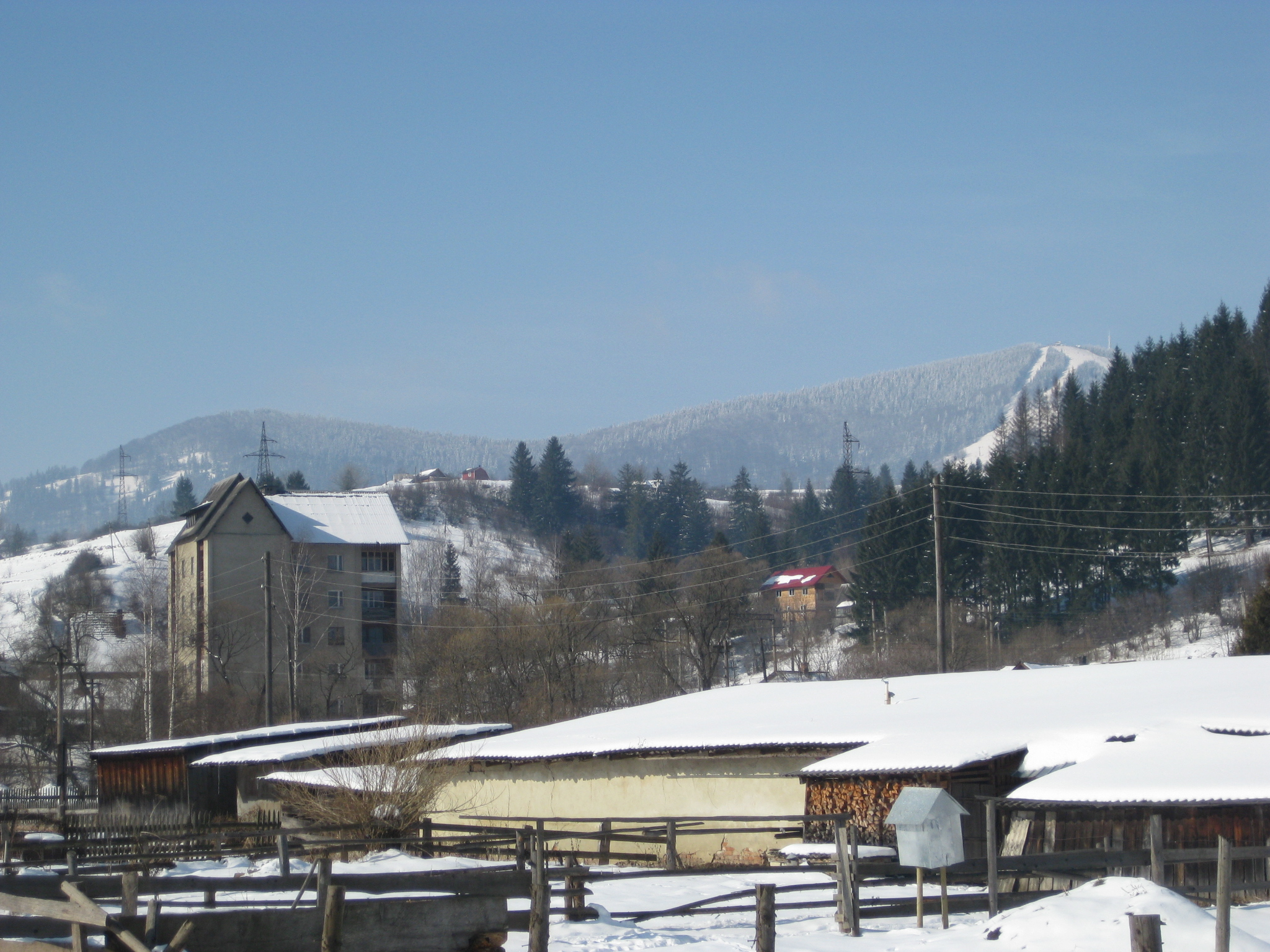 Slavs`ke, view of Trostyan